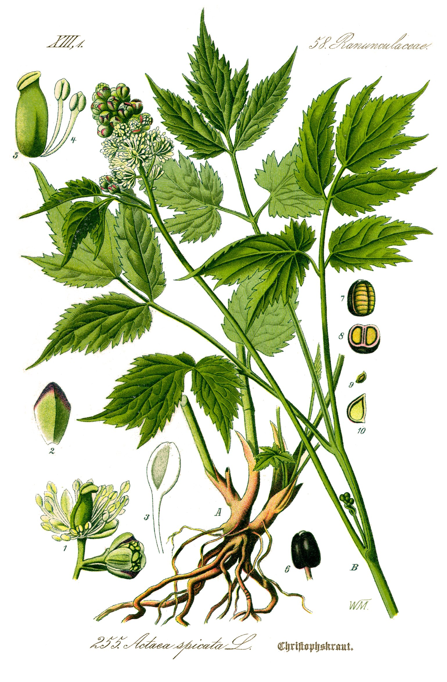 Clean version of Image:Illustration_Actaea_spicata0.jpg Name Actaea spicata Family Ranunculaceae